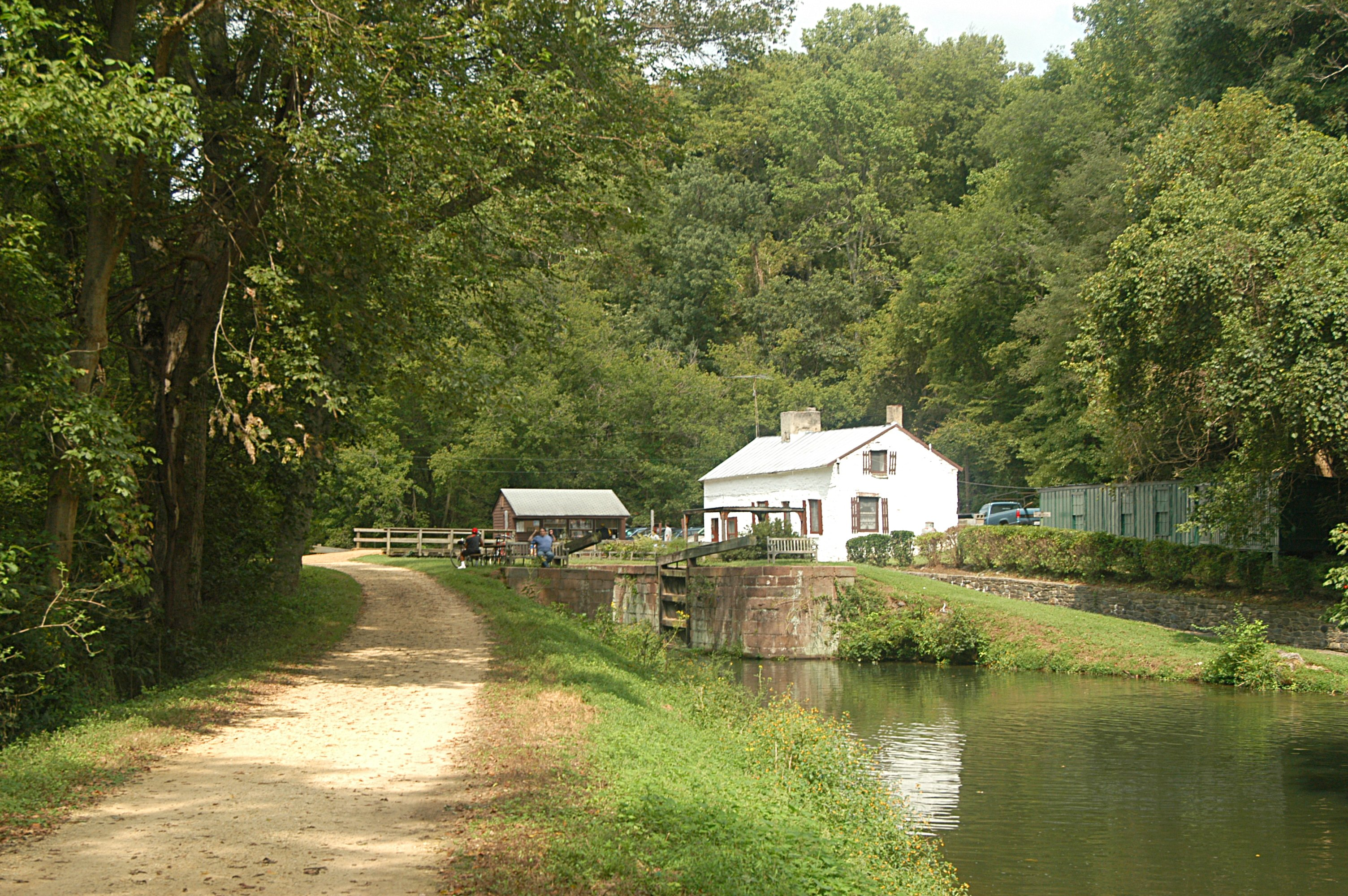 Swain's Lock on the Chesapeake & Ohio Canal, near Potomac, Maryland. Note: Since this photo was taken, the Swain family moved out in 2006, and the concession stand seen in the middle of the photo, was demolished.